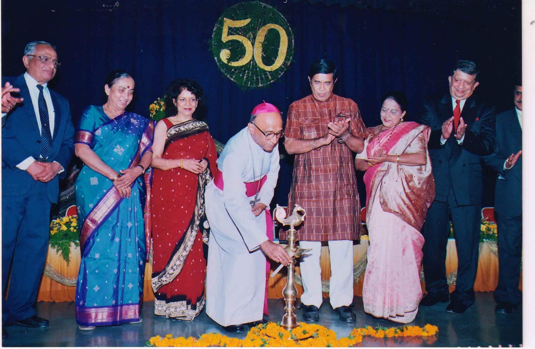 Innaugral of the 50th Anniversary of the founding of KCA by HIs Grace the Archbishop of Bangalore, Bernard Moras in the presence of Minister of Overseas Affairs and Member of Parliament, Oscar Fernandes and Former Governor and Member of Parliament Margaret Alva